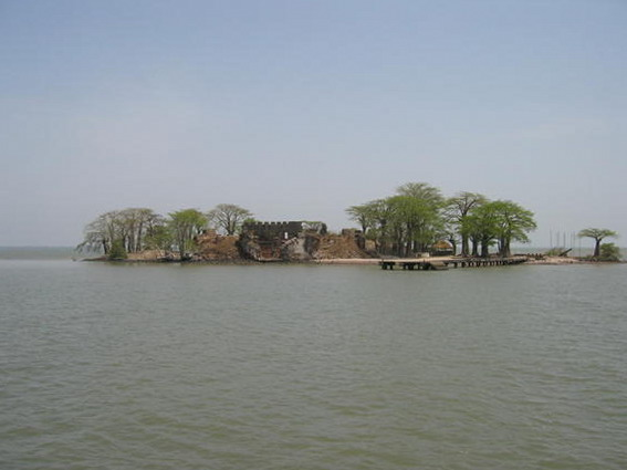 River Gambia (James Islands)